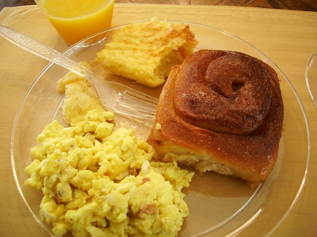 A breakfast.